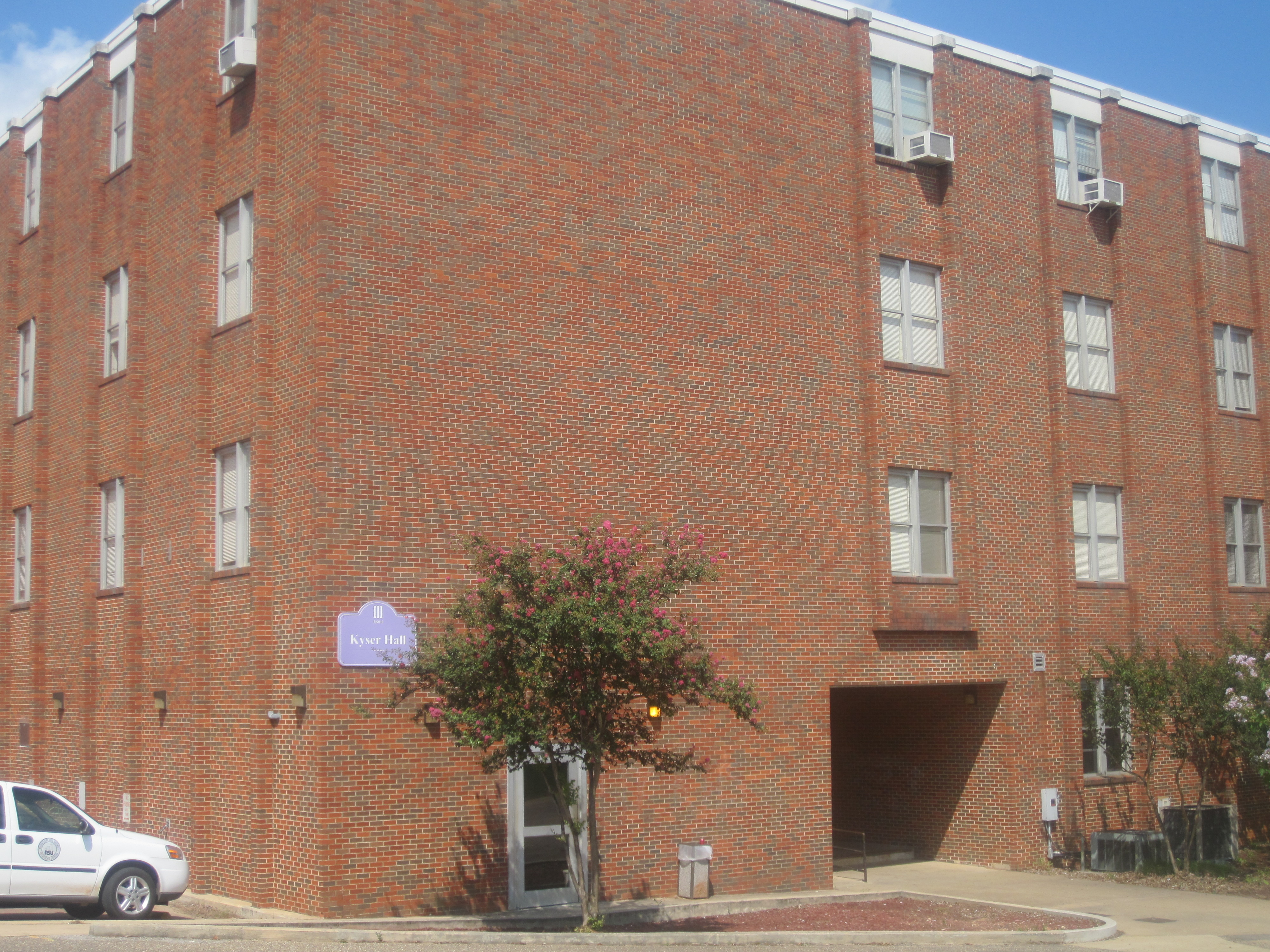 John S. Kyser Hall at NSU, Natchitoches, LA